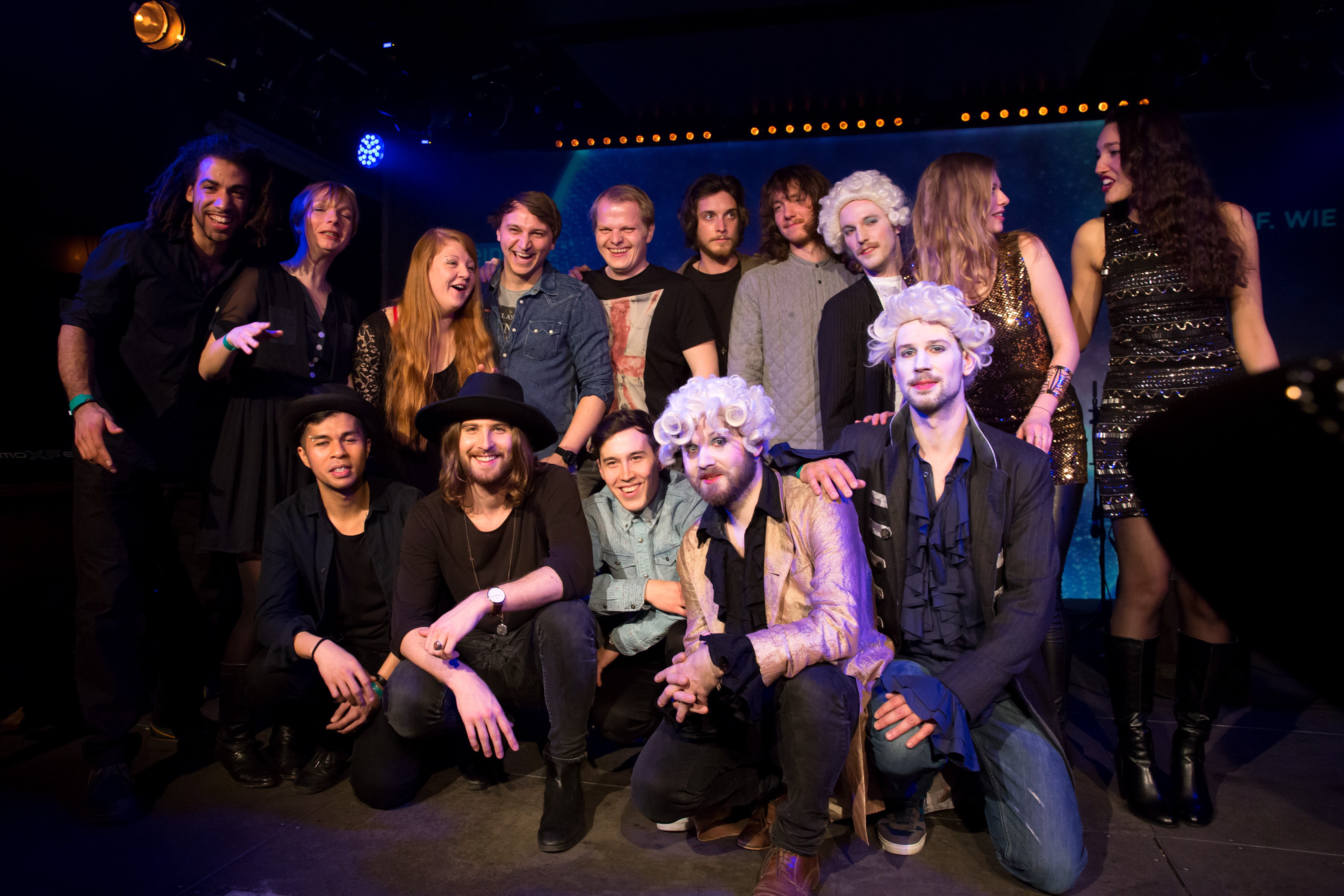 Celina Ann, DAWA, folkshilfe, Johann Sebastian Bass, The Makemakes and Zoe at the concert of the Austrian candidates for participating at the Eurovision Song Contest 2015; Chaya Fuera, Vienna,Austria.